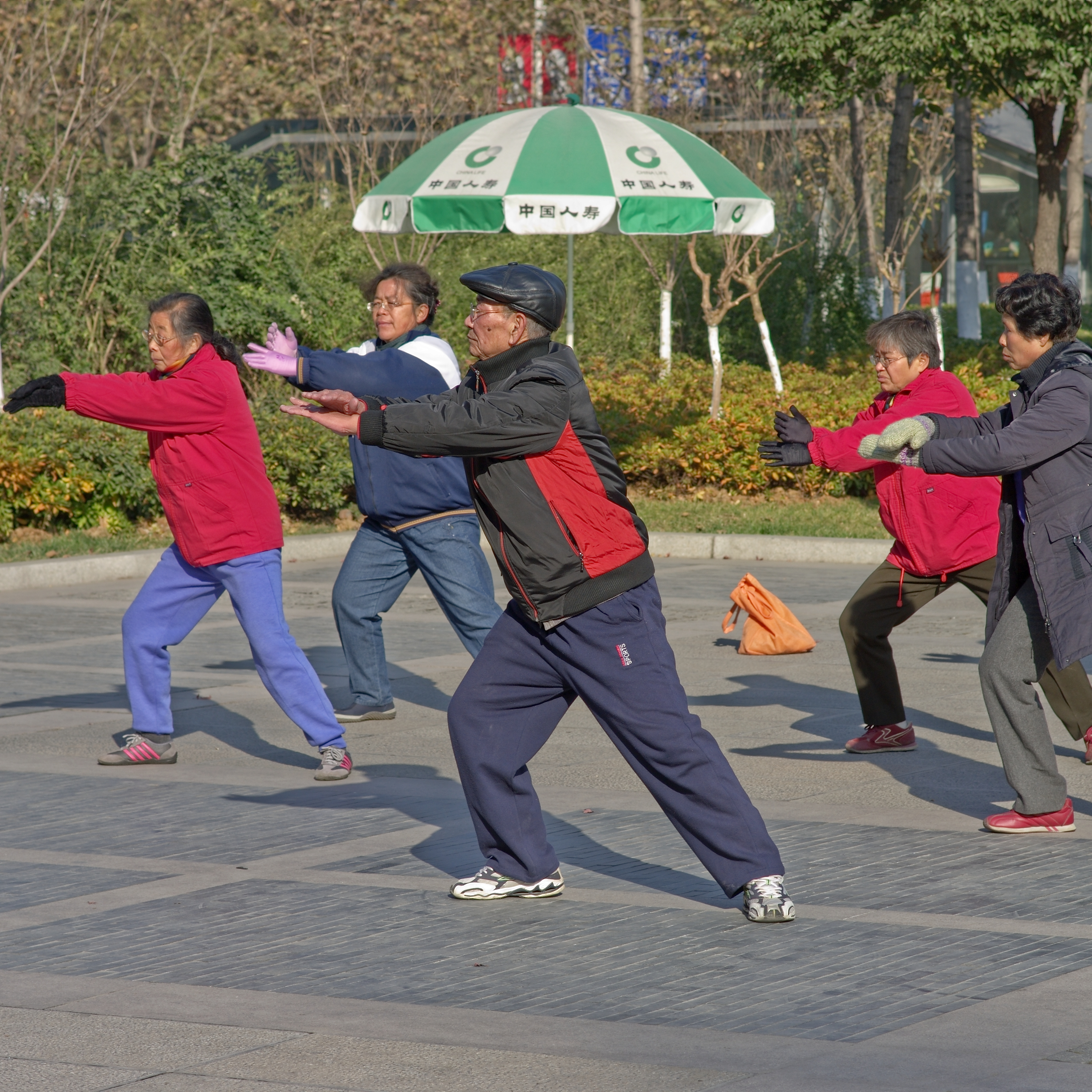 Some old chinese people are making sport. Nanjing, China.